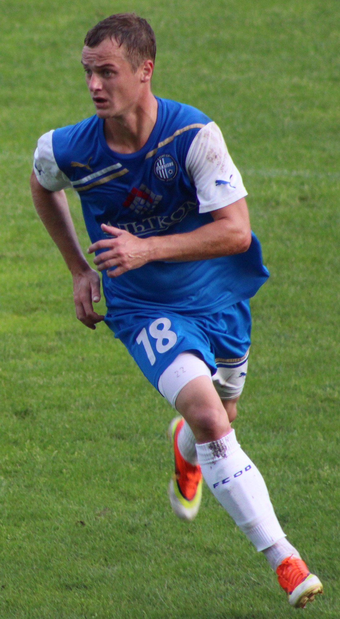 Igor Semenyna